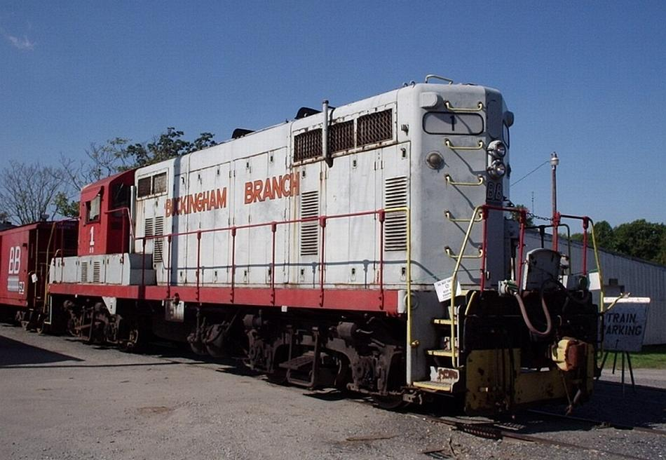 Photo by William J. Grimes Watermarking This image is watermarked to give credit to the photographer, just as an artist signs their work! I removed the watermark to comply with Wikipedia policy. The image is in the public domain so no obligation to attribute the work. The photo is by William J. Grimes. Iain 05:15, 6 August 2007 (UTC)